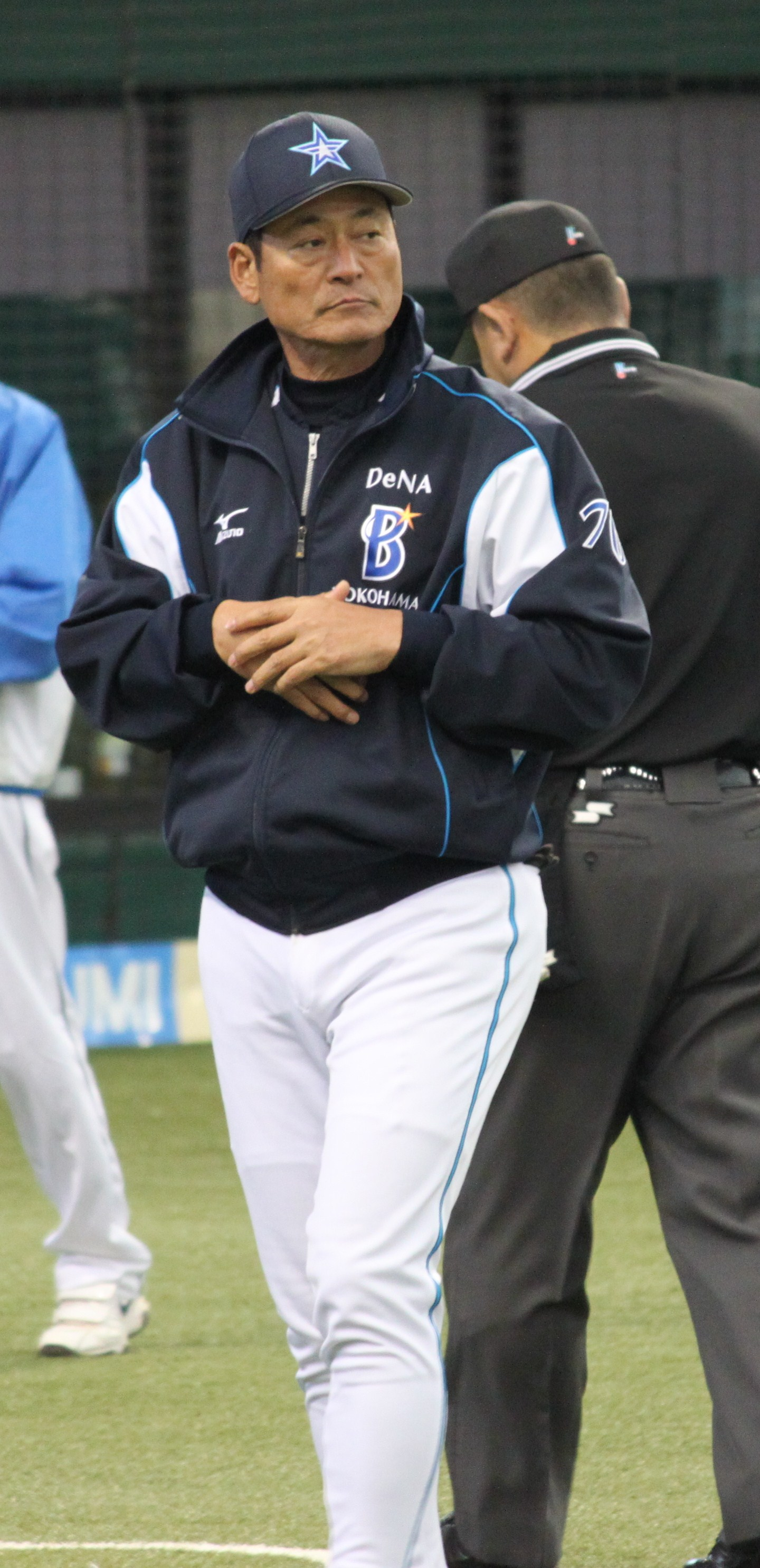 Kiyoshi Nakahata, manager of the Yokohama DeNA BayStars, at Seibu Dome.